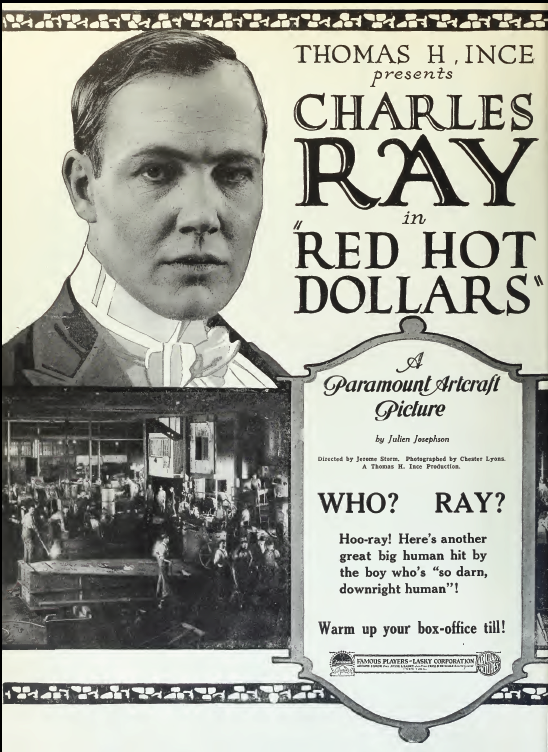 Charles Ray in Red Hot Dollars (1919), a film directed by Jerome Stern